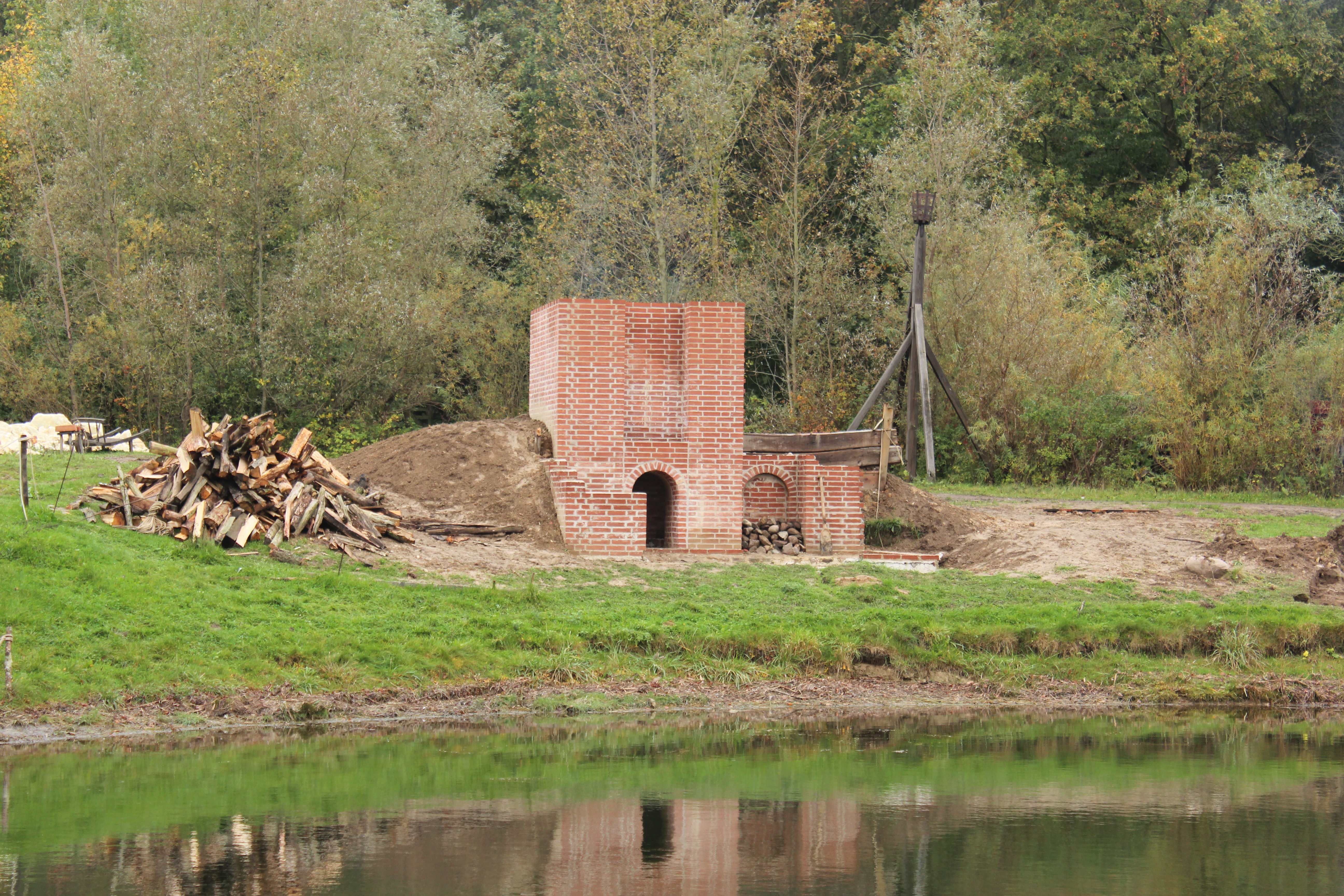 Oven for burning bricks and lime at Middelaldercentret.